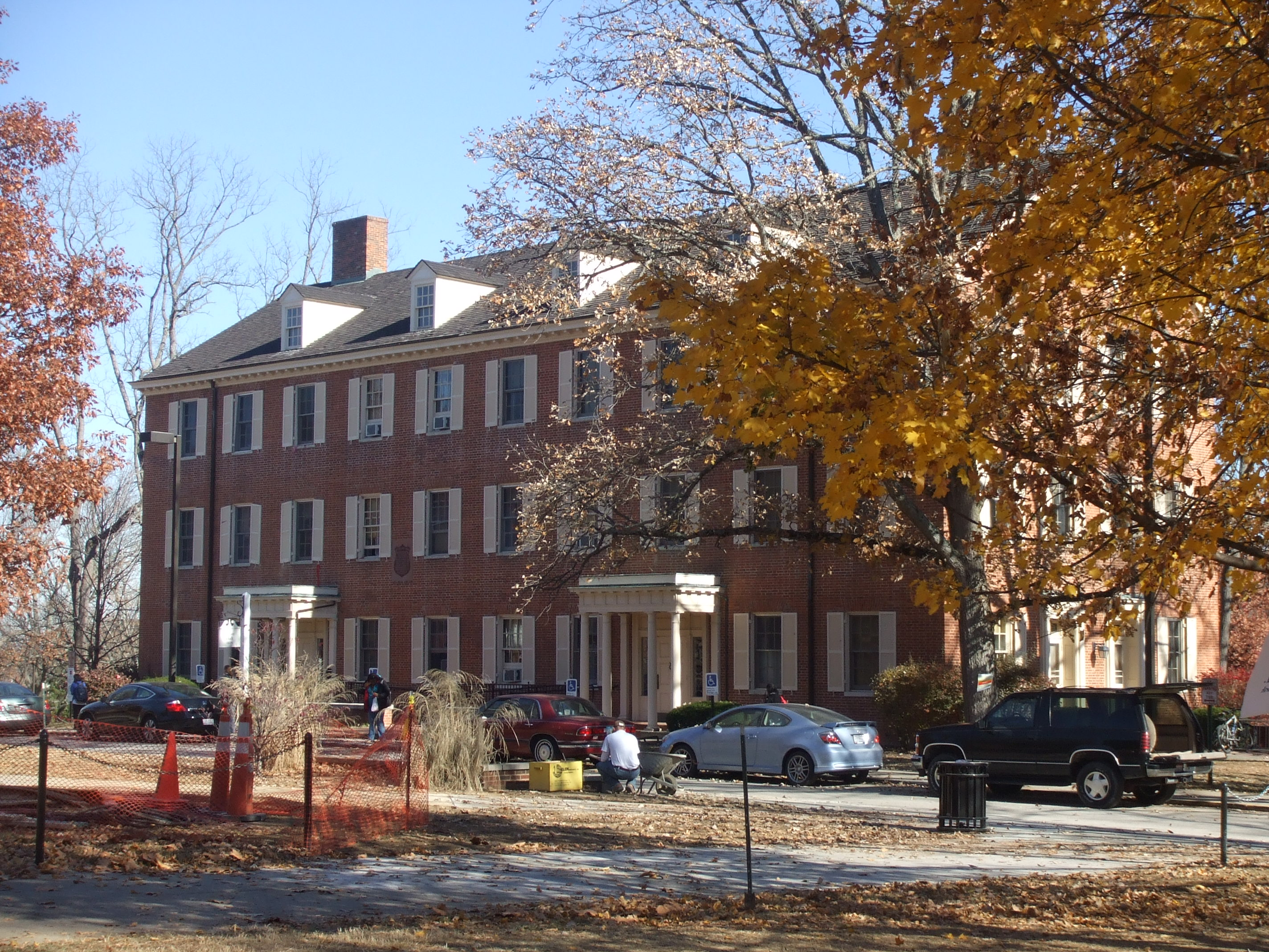 Elliot Hall